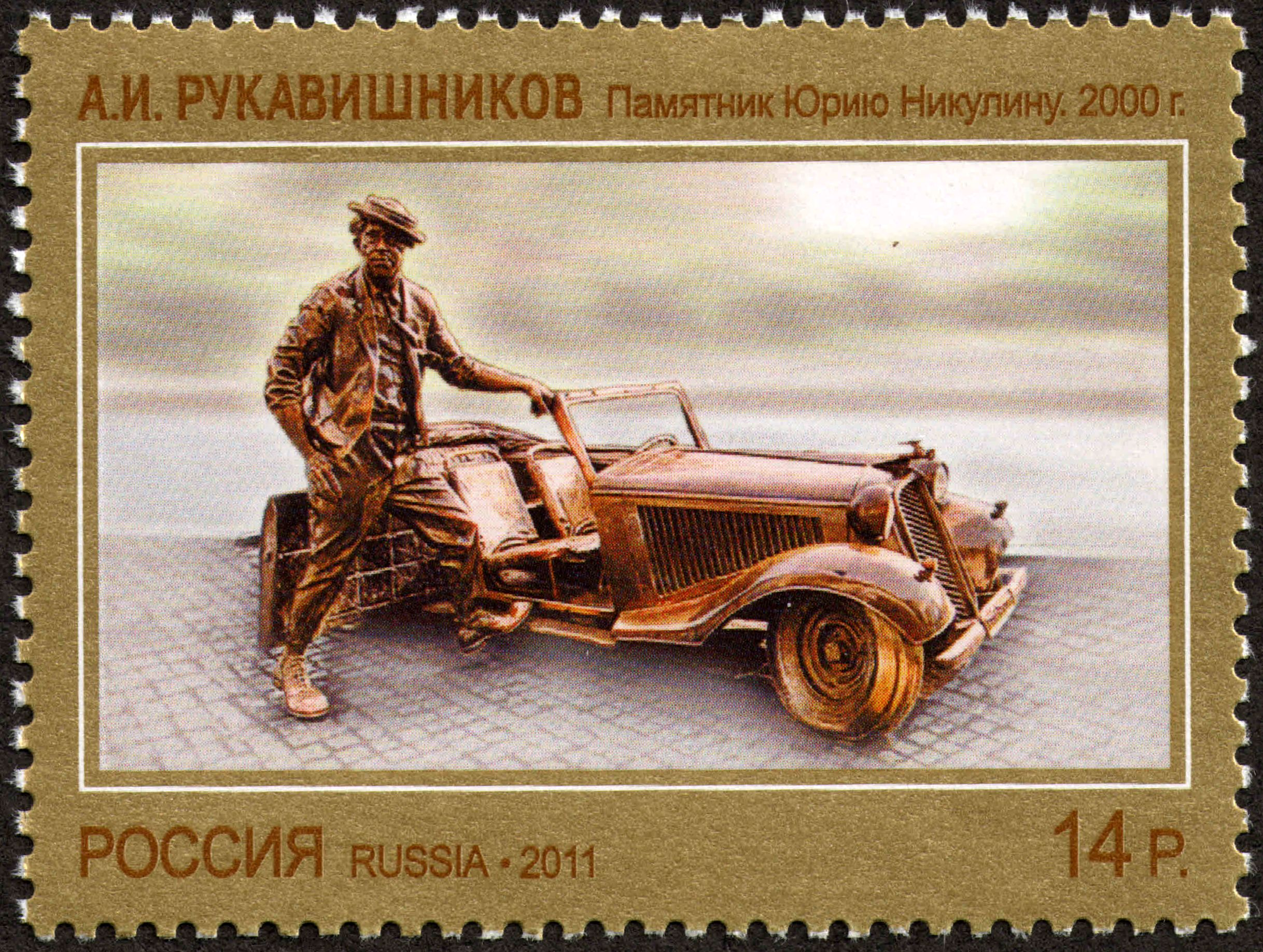 The contemporary art of Russia (the ongoing series, issue I).The monument to Yuri Nikulin (before Moscow Circus on Tsvetnoy Boulevard) by Alexander Rukavishnikov. 2001.Alexander Iulianovich Rukavishnikov (born 1950) is a Soviet and Russian sculptor, a Meritorious Artist of RSFSR, a People's Artist of the Russian Federation, a full member of Russian Academy of Arts. Alexander Rukavishnikov is the author of numerous monuments to eminent persons installed in Russia and other countries.The stamp of Russia, 14.00 Rubles, 12 September 2011, PTC Marka Catalogue No 1515, Michel No 1747. Coated paper, varnish coating, bronze paste. Offset printing. Perforation: comb 12:11½. Size of the stamp: 50×37 mm. Print run: 270,000.